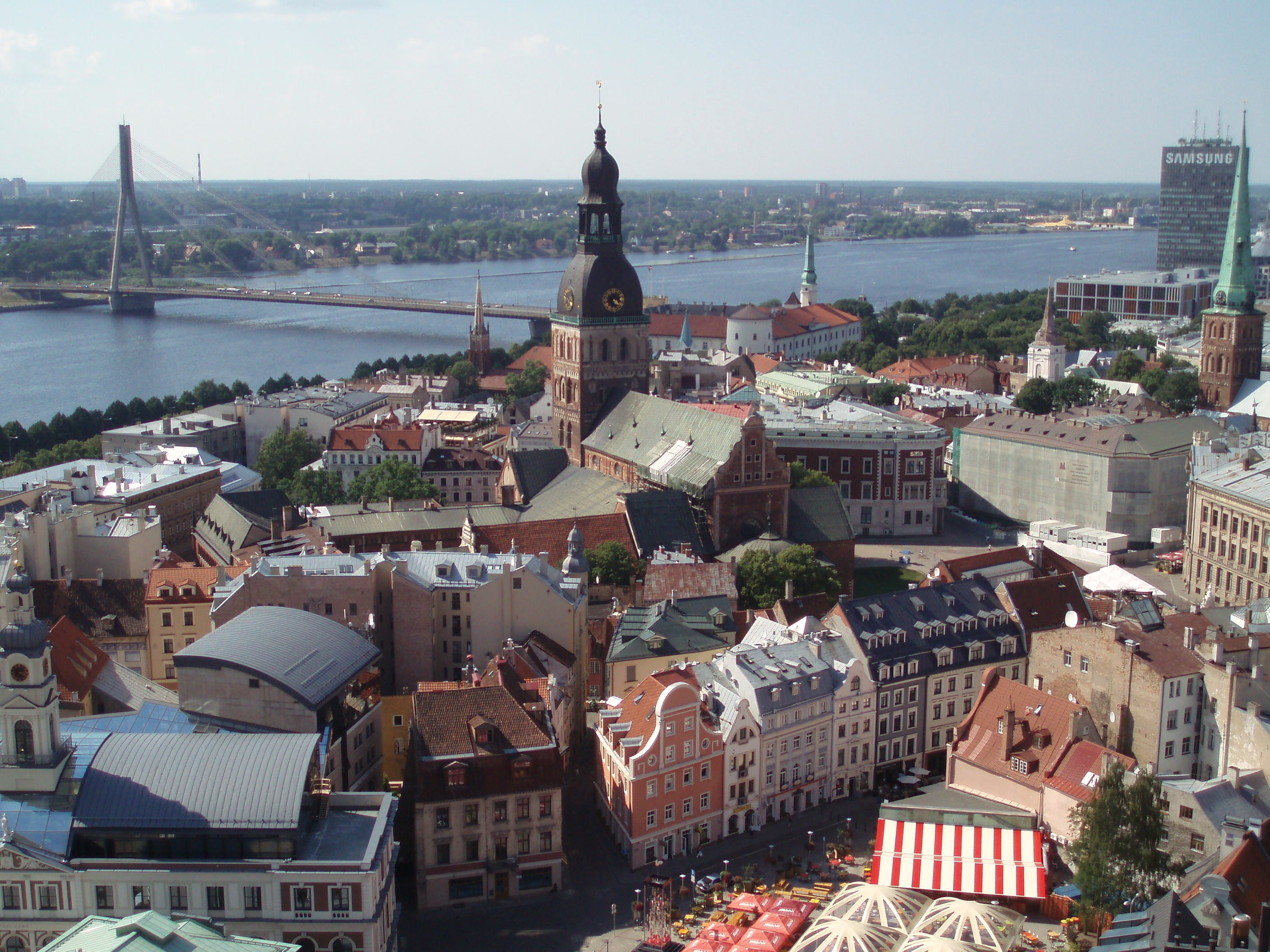 View of Riga towards the cathedral and Vanšu Bridge.